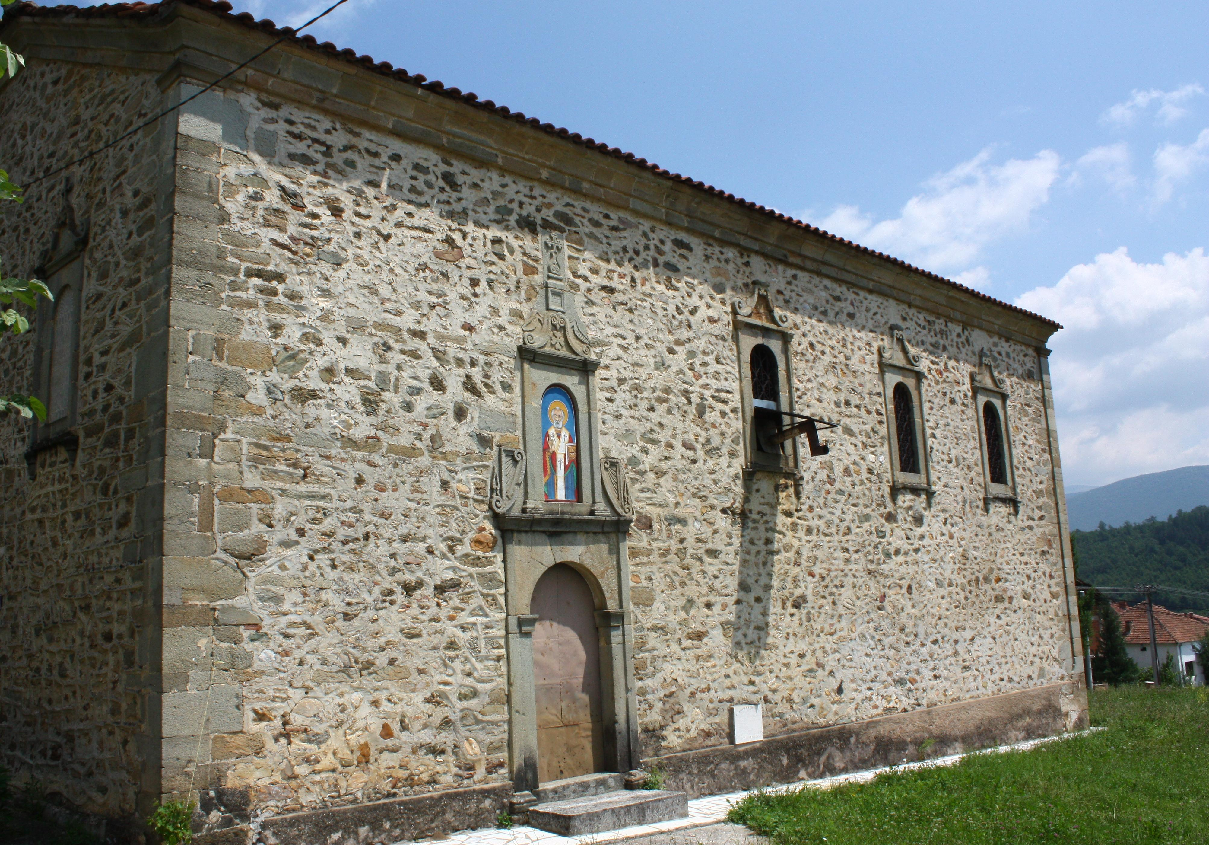 Holy Mother of God. The main Catedral and cental parish Church in Makedonski Brod, Macedonia